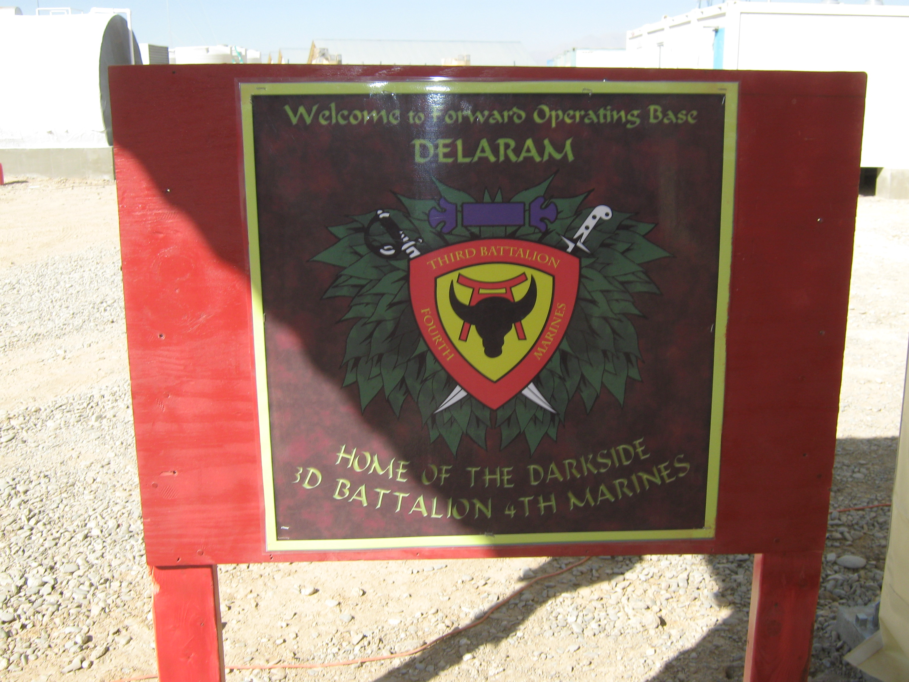 Sign at Forward Operating Base Delaram, Nimruz Province, Afghanistan.